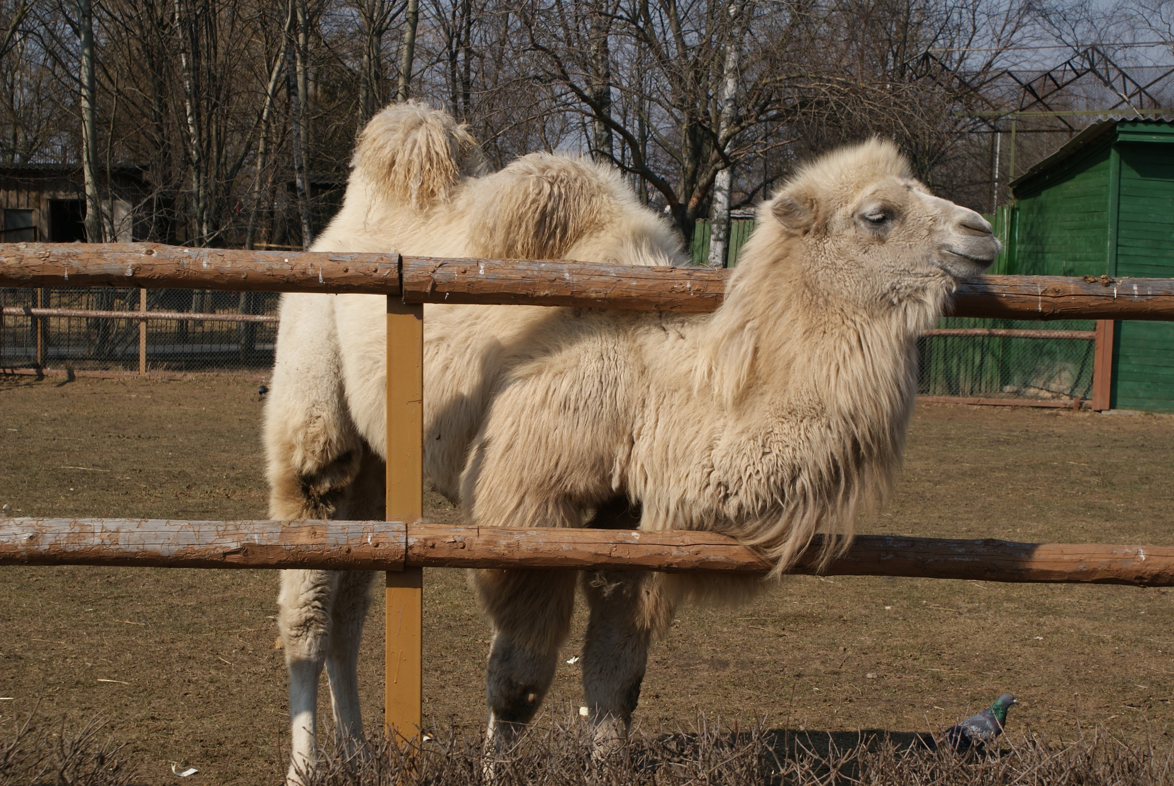 Camelus bactrianus in Minsk Zoo